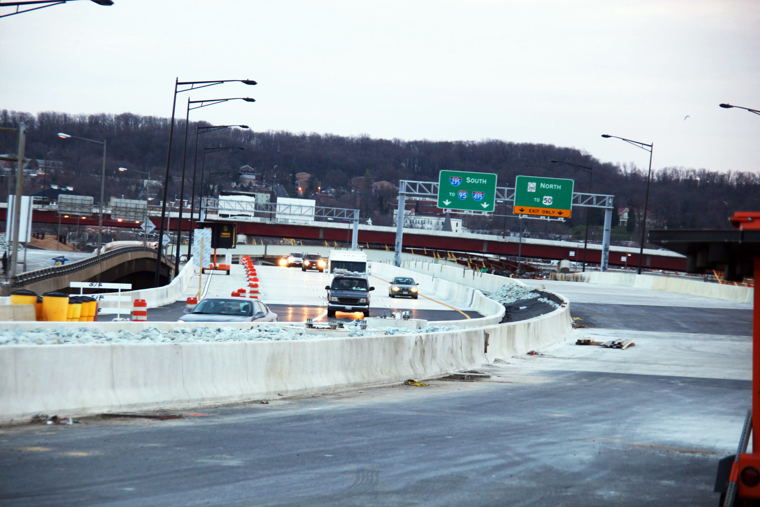 Construction on the 11th Street Bridges across the Anacostia River in Washington, D.C. I took these photos on the fly, while traveling on a bus crossing the bridges. The 11th Street Bridges are a pair of one-way bridges across the Anacostia River in Washington, D.C. The District of Columbia assessed the bridges in 2002, and decided they had reached the end of their useful life. A $365 million project was proposed to replace the two bridges with three new ones. The new bridges will be of a safer design, include pedestrian access, be lower (to less obscure nearby views), include room for a trolley track on one of the bridges, and provide for access from three local freeways (to reduce congestion). The third bridge will carry local traffic from Anacostia directly into the rest of the city, without mingling it with the freeway traffic. Demolition of the bridges began in July 2009. The inbound I-295 span opened on December 19, 2011. Construction is scheduled to end in 2013.